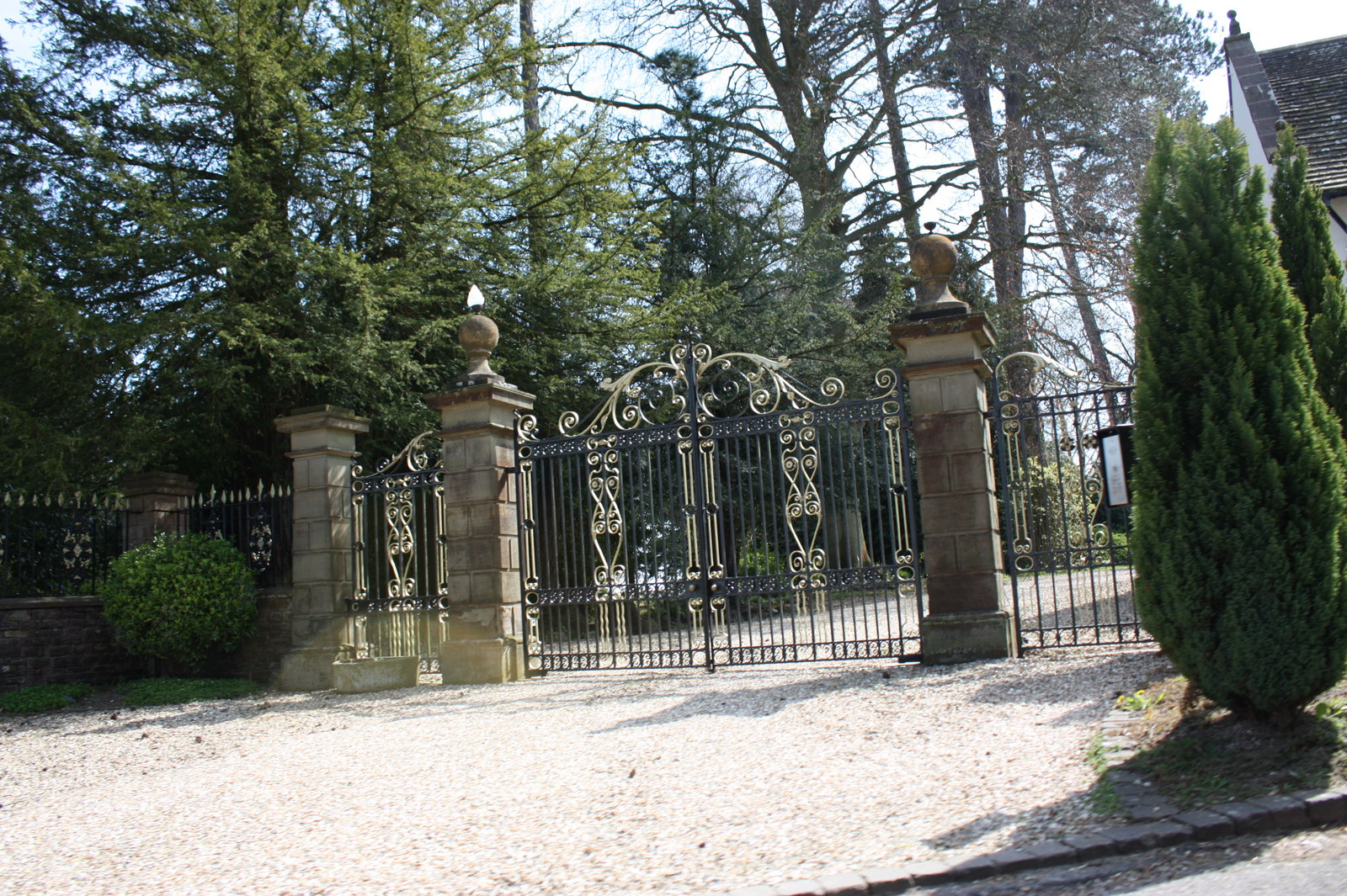 Gates to Shirenewton Hall, Shirenewton, Monmouthshire, Wales, UK. Note that the Hall is Grade II, but the Japanese Garden and Teahouse is Grade II*